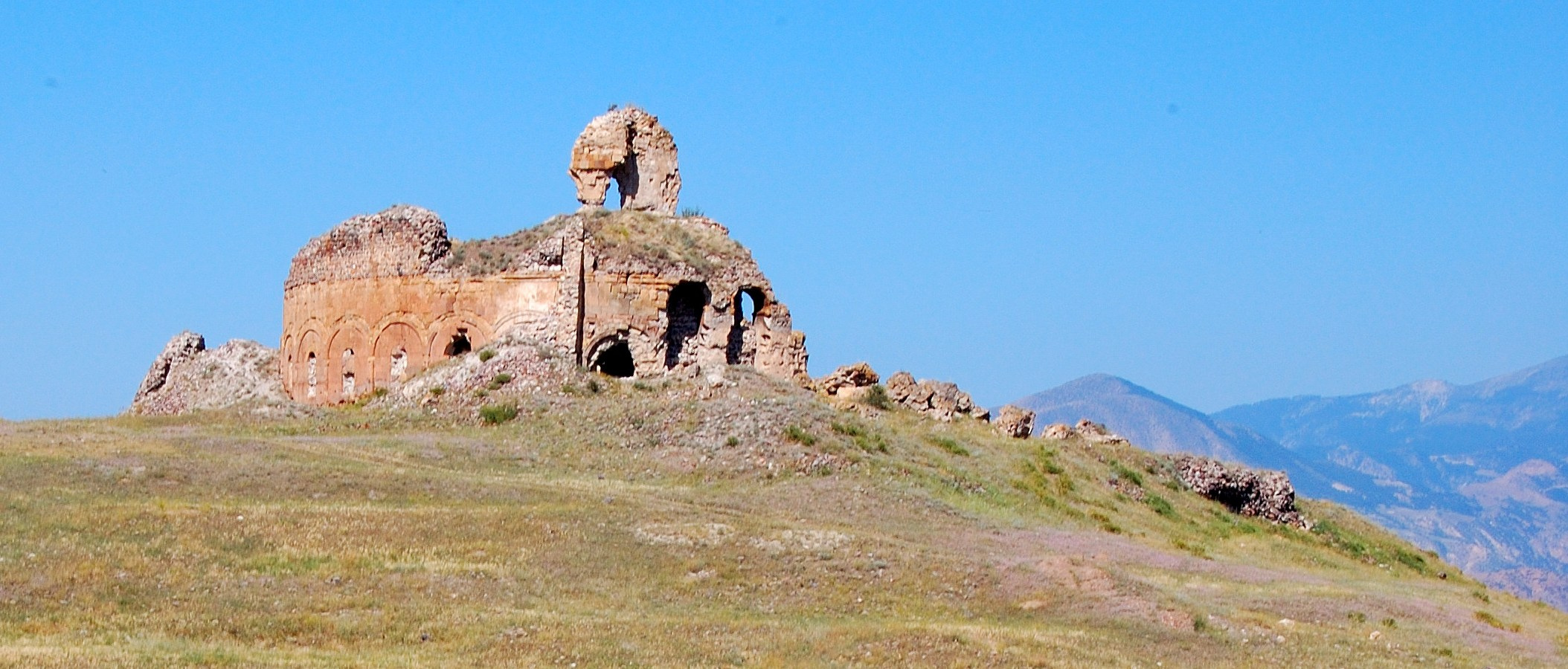 The Bana Cathedral, a 7th century Armenian Apostolic church modeled after Zvartnots Cathedral. Located in the Armenian Highland, the homeland of the Armenian people (present day Eastern Anatolia Province of Turkey)